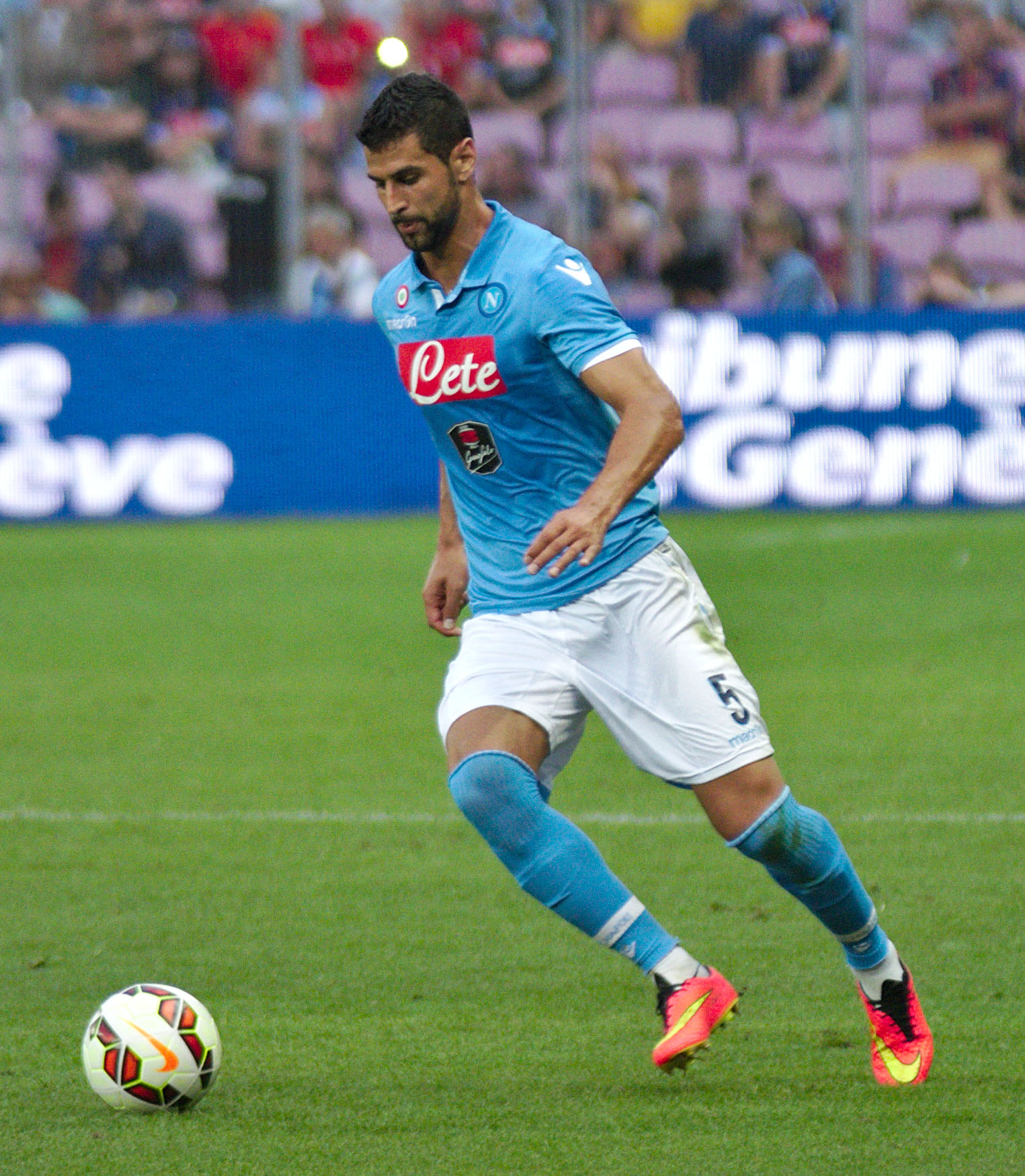 Barça v Napoli, 2014. Miguel Britos.